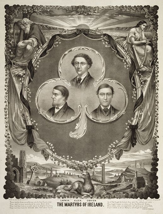 "The martyrs of Ireland". Library of Congress description: "Print shows bust portraits of the "Manchester martyrs," Michael Larkin, William Allen, and William O'Brien, in a shamrock on a shield with allegorical scene above, and an Irish wolfhound guarding a view of the landscape of Ireland. Inlcudes eight lines of verse "written by Mr. P.D. Farrell."